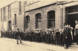 Boys queuing for soup outside Wood Street Mission c.1900